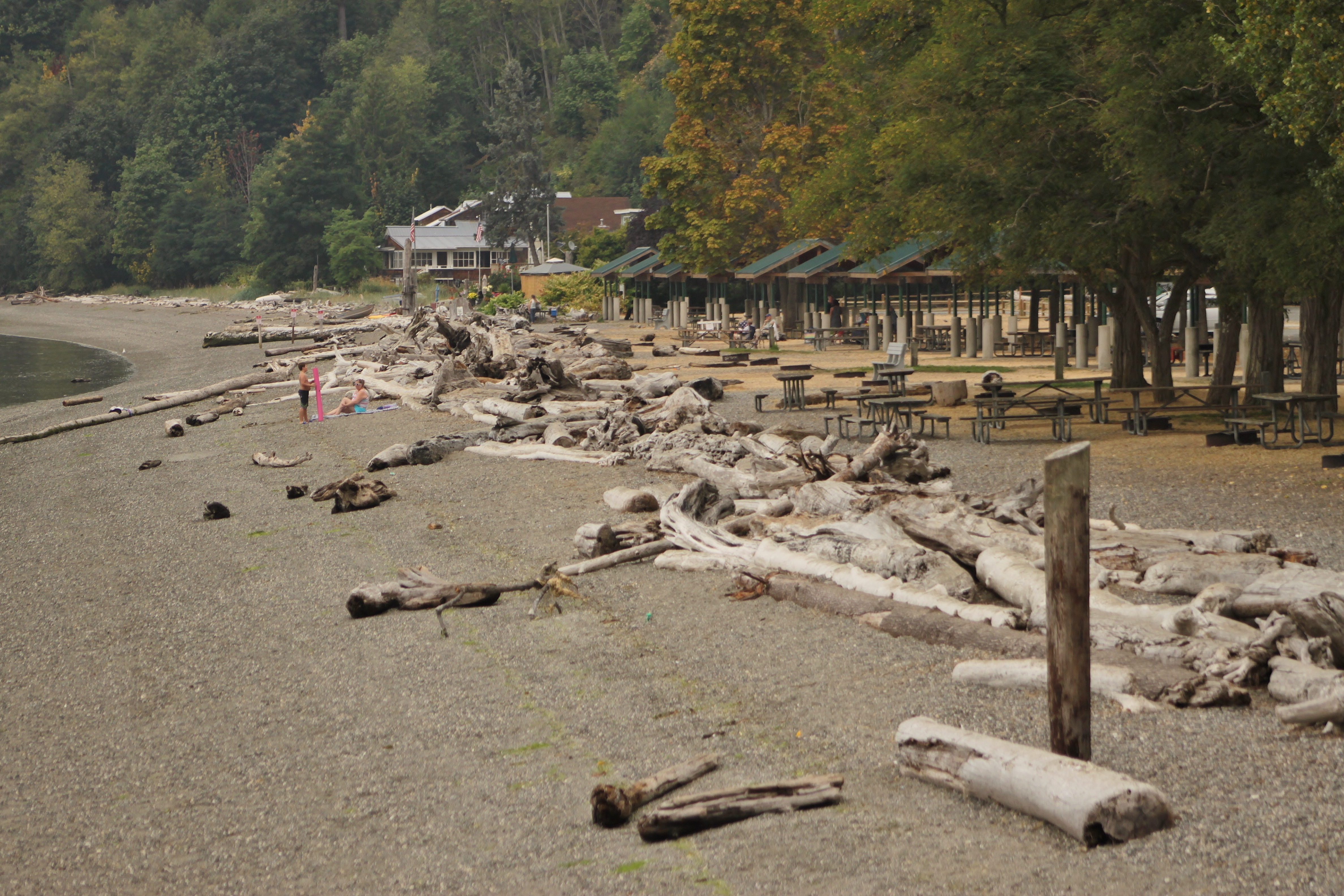 The beach at Kayak Point County Park near Marysville, viewed from the pier. The beach is planned to undergo a major renovation in the late 2010s as part of a park redevelopment program.